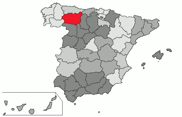 Province of León Based in: Image:ProvPont.jpg Source: Designed by Leoplus. Original picture, designed by Sobreira.